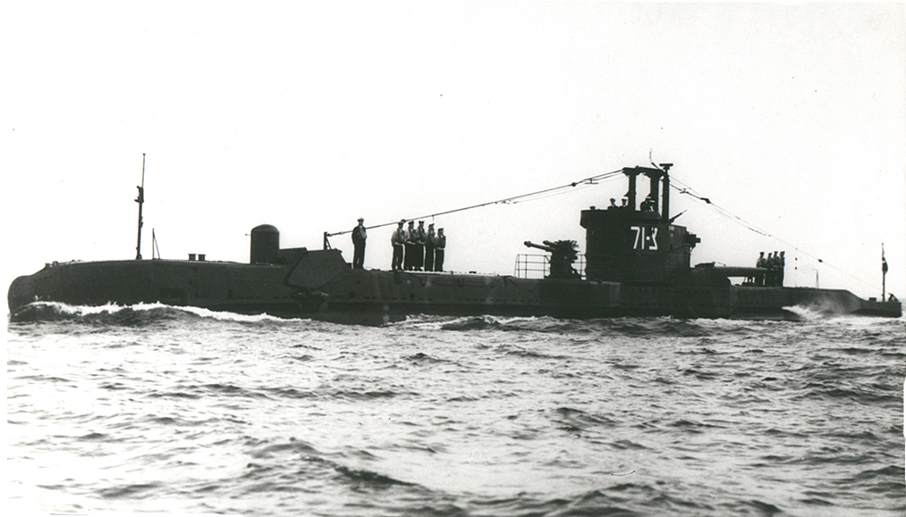 The Israeli Submarine INS Tanin, Ex HMS Springer